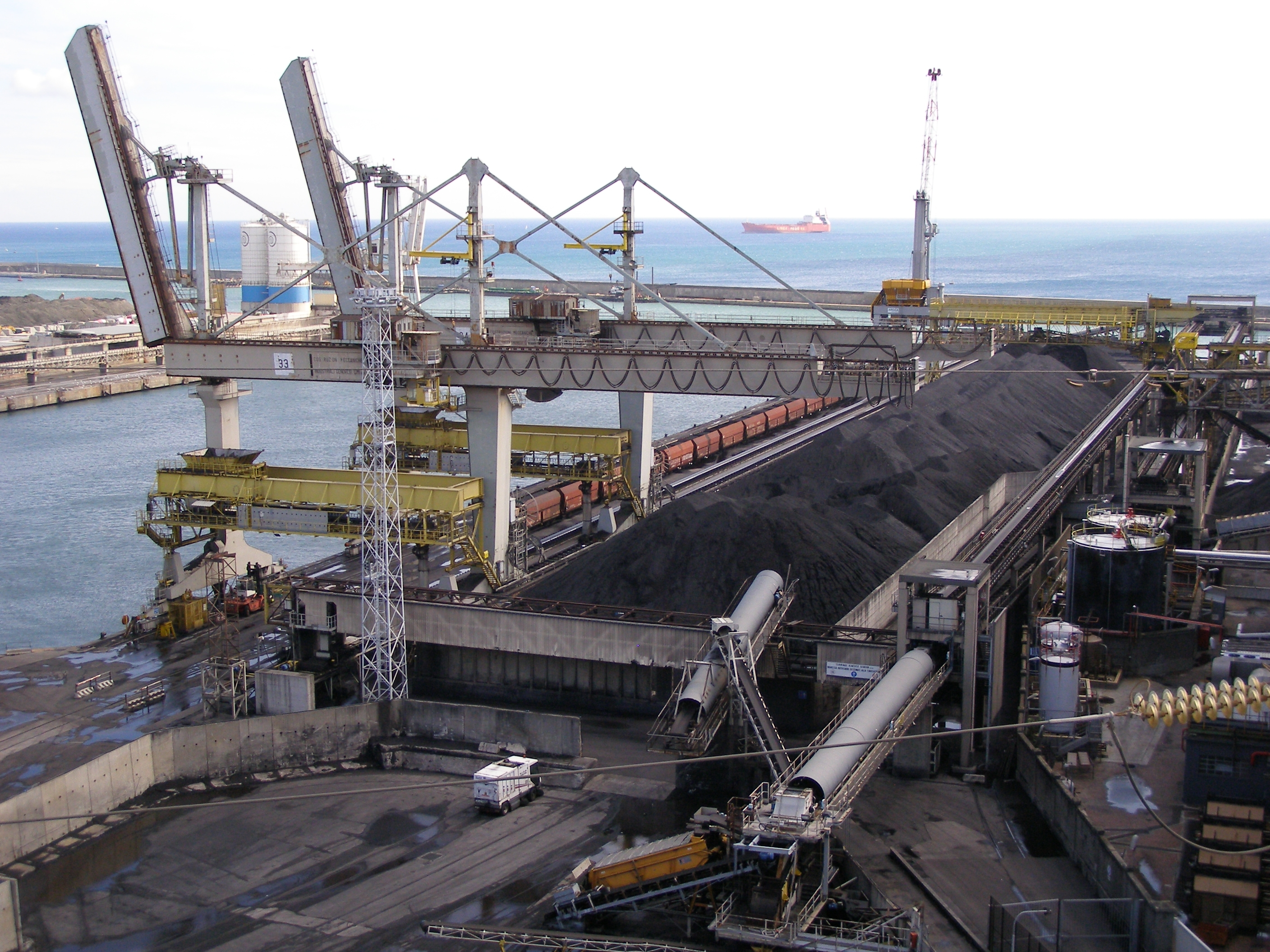 Genoa - coal terminal